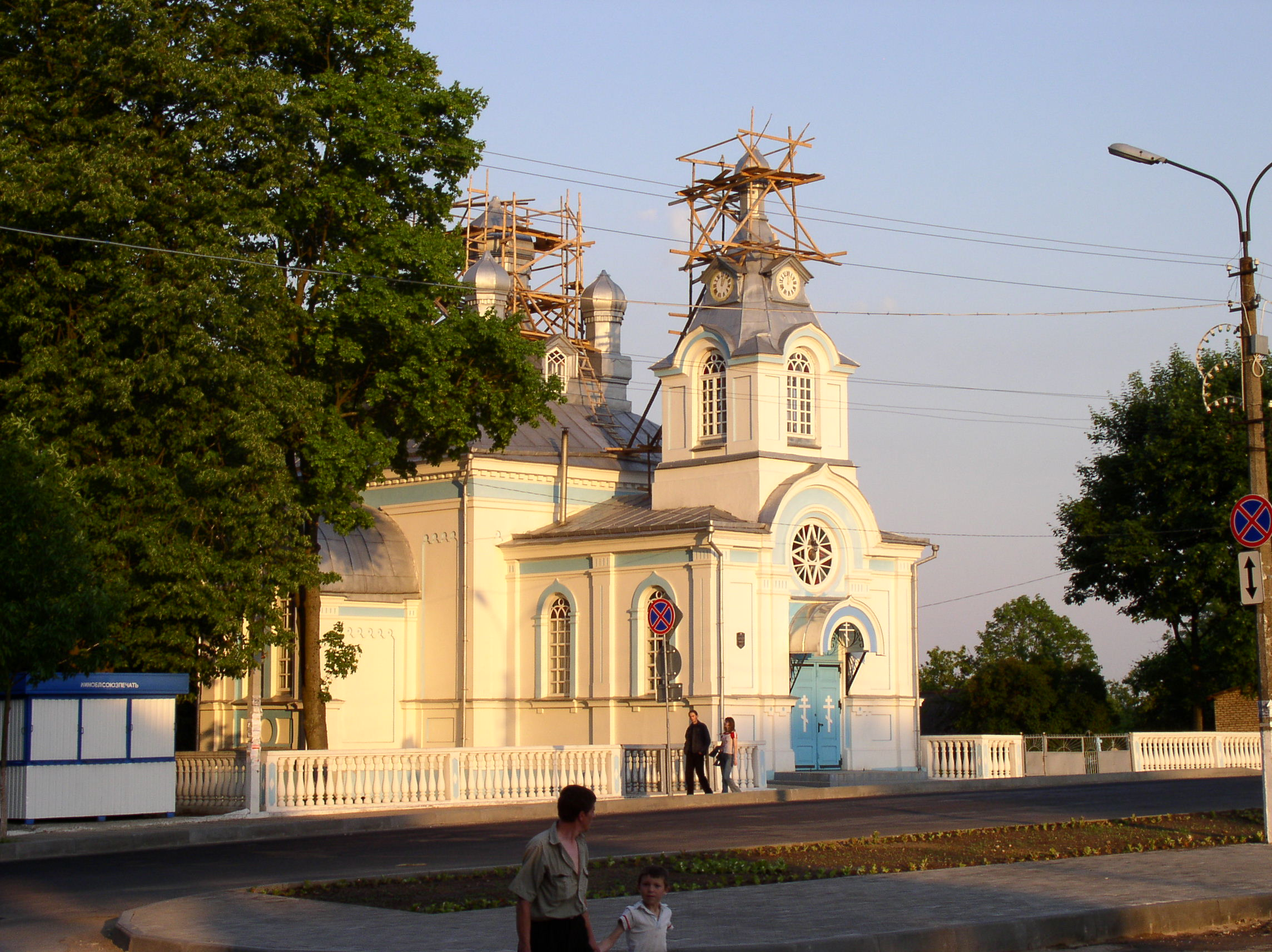 Church of the Saint Mary of Egypt, Vileyka, Belarus.